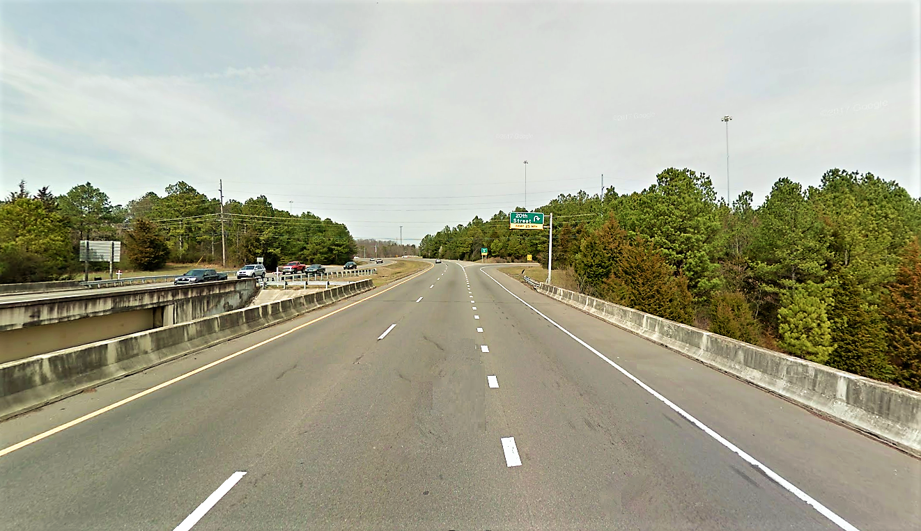 APD-40/SR 60 in Cleveland crossing bridge over Overhead Bridge Road and 20th Street.